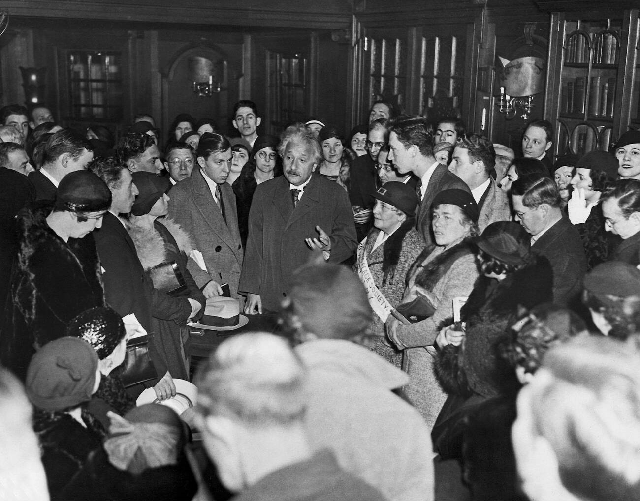 Original caption: "Albert Einstein on board of the SS Belgenland, 1933. The physicist and Nobel laureate Albert Einstein is surrounded by a crowd in the library of the SS Belgenland on the trip from New York to Antwerp. Einstein was on the 'Belgenland' actually on the way back from his third trip in the USA to Germany, but decided on the board to give up his position in Germany and not to return to Germany." Caption